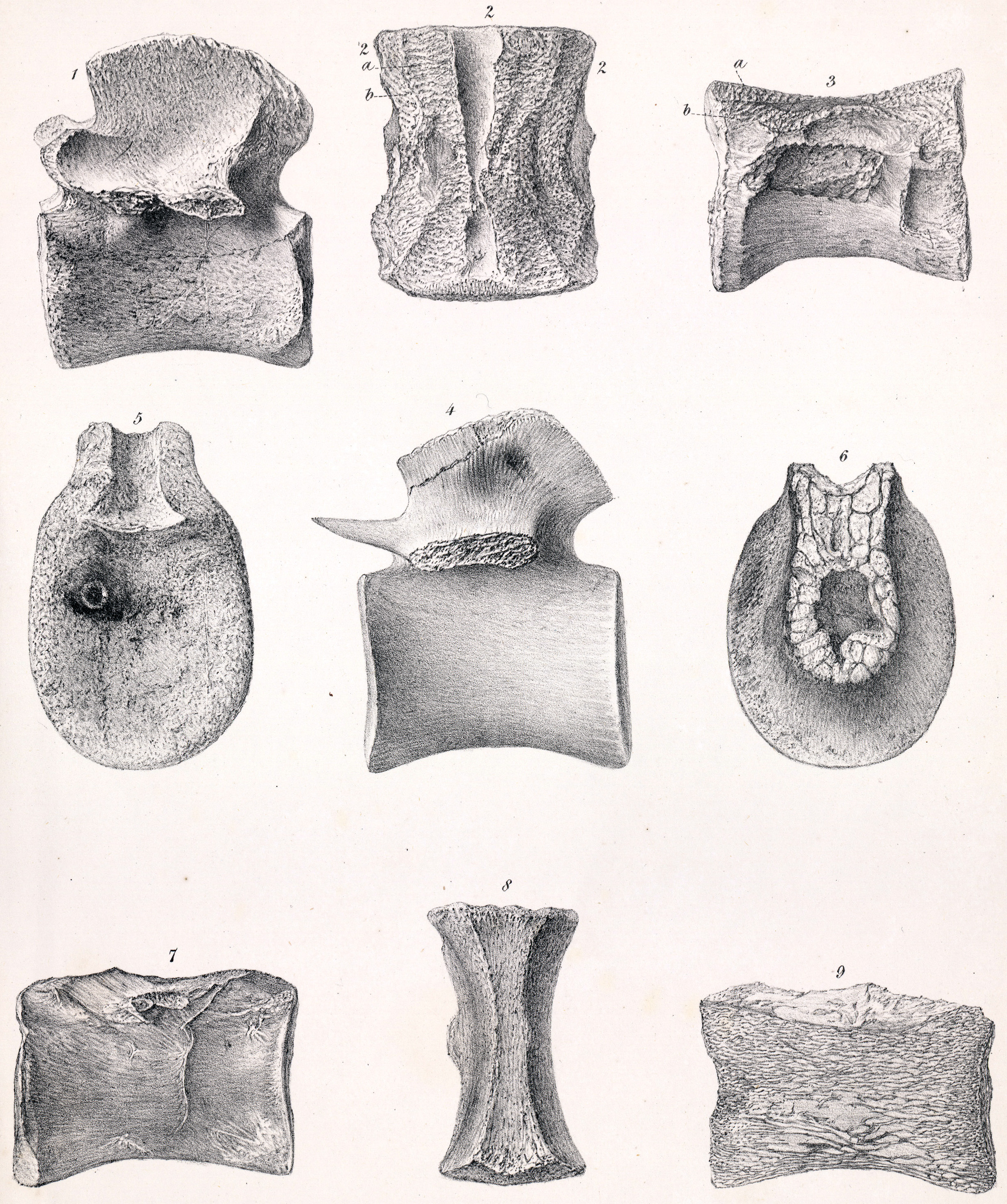 Crocodilia.—Poikilopleuron. Fig. 1. Side view of a dorsal vertebra, Poikilopleuron Bucklandi. Fig. 2. Upper view of centrum of do. Fig. 3. Side view of do. Fig. 4. Side view of a dorsal vertebra of do. Fig. 5. End view of the same vertebra. Fig. 6. Transverse vertical section of do. Fig. 7. Side view of do. Fig. 8. Under view of do. Fig. 9. Vertical longitudinal section of do. All the figures are of the natural size. From the Wealden of Sussex and the Isle of Wight.